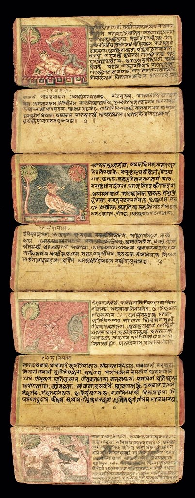 From source: Object Number: 1984.431 Title: Illustrated Manuscript of Folklore (Hitopadesha) Date: c. 1800 CE Creation Place: South Asia, Nepal Culture: Nepalese